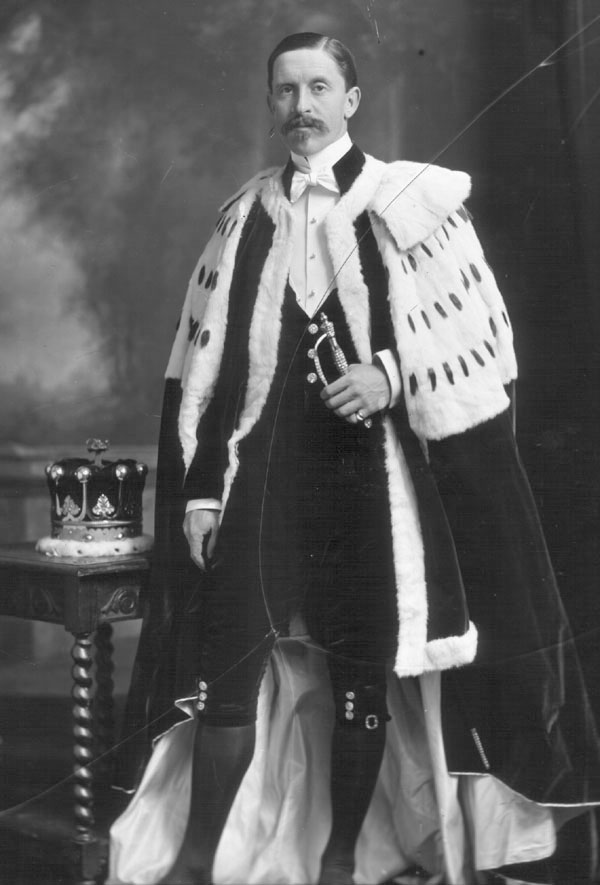 William George Robert Craven, 4th Earl of Craven (1868-1921), photographed 27 October 1902.